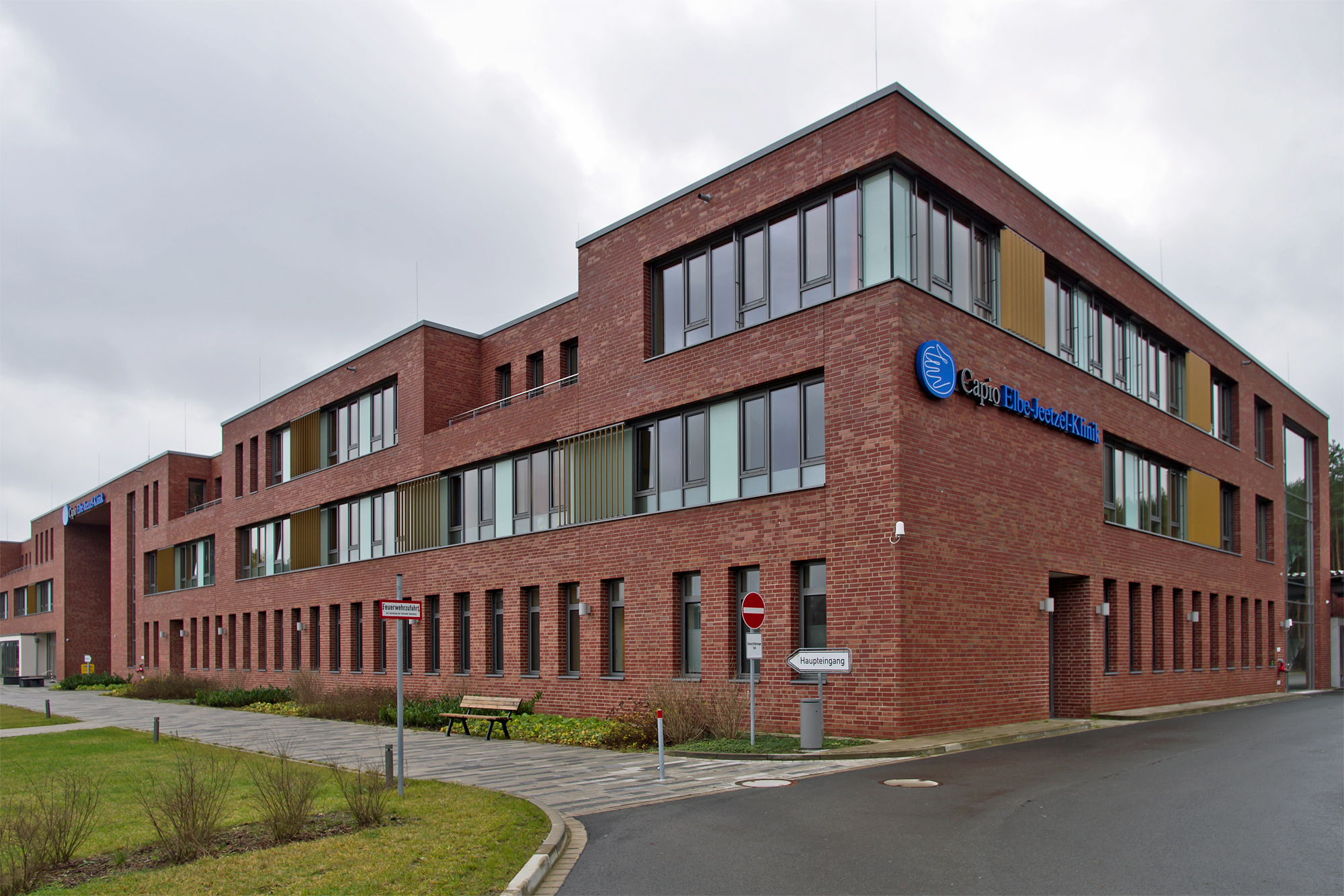 New building (inauguration 2012) of the hospital "Capio Elbe-Jeetzel Klinik" in Dannenberg (Elbe); view from north.